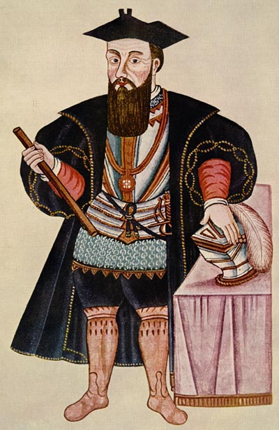 Stylized picture of Vasco da Gama, early 16th C. navigator and viceroy of Portuguese India, from 17th C. codex, Tratado dos vie-reis (BNP, Paris).